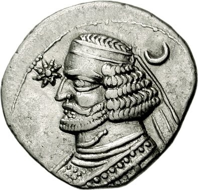 Coin of Orodes II, Mithradatkert (Nisa) mint